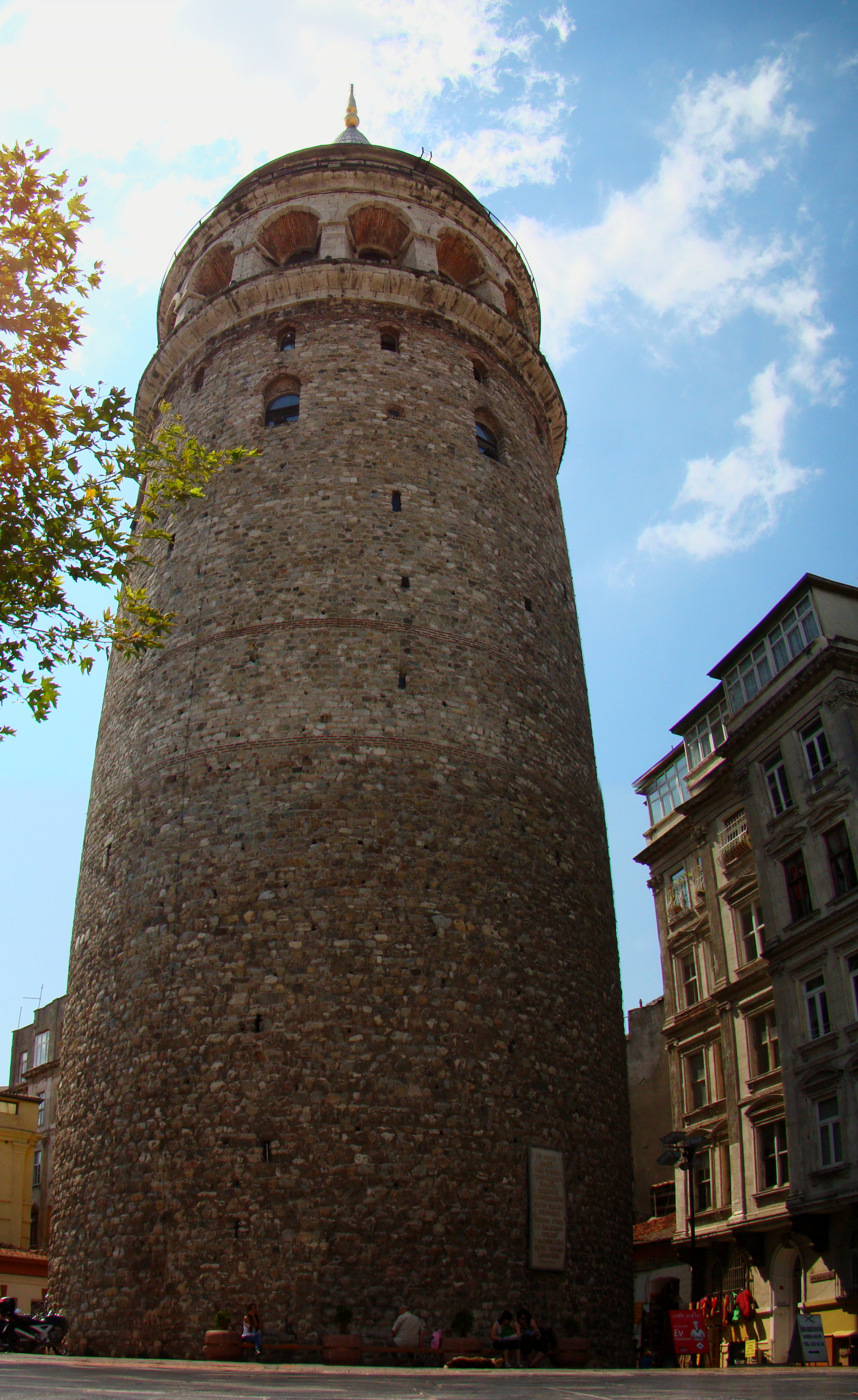 The entire north side of Galata Tower in Istanbul, Turkey. The tower in its present-day form is 66.90 metres high. Its external diameter at its base is 16.45 metres, on the inside 8.95 metres.